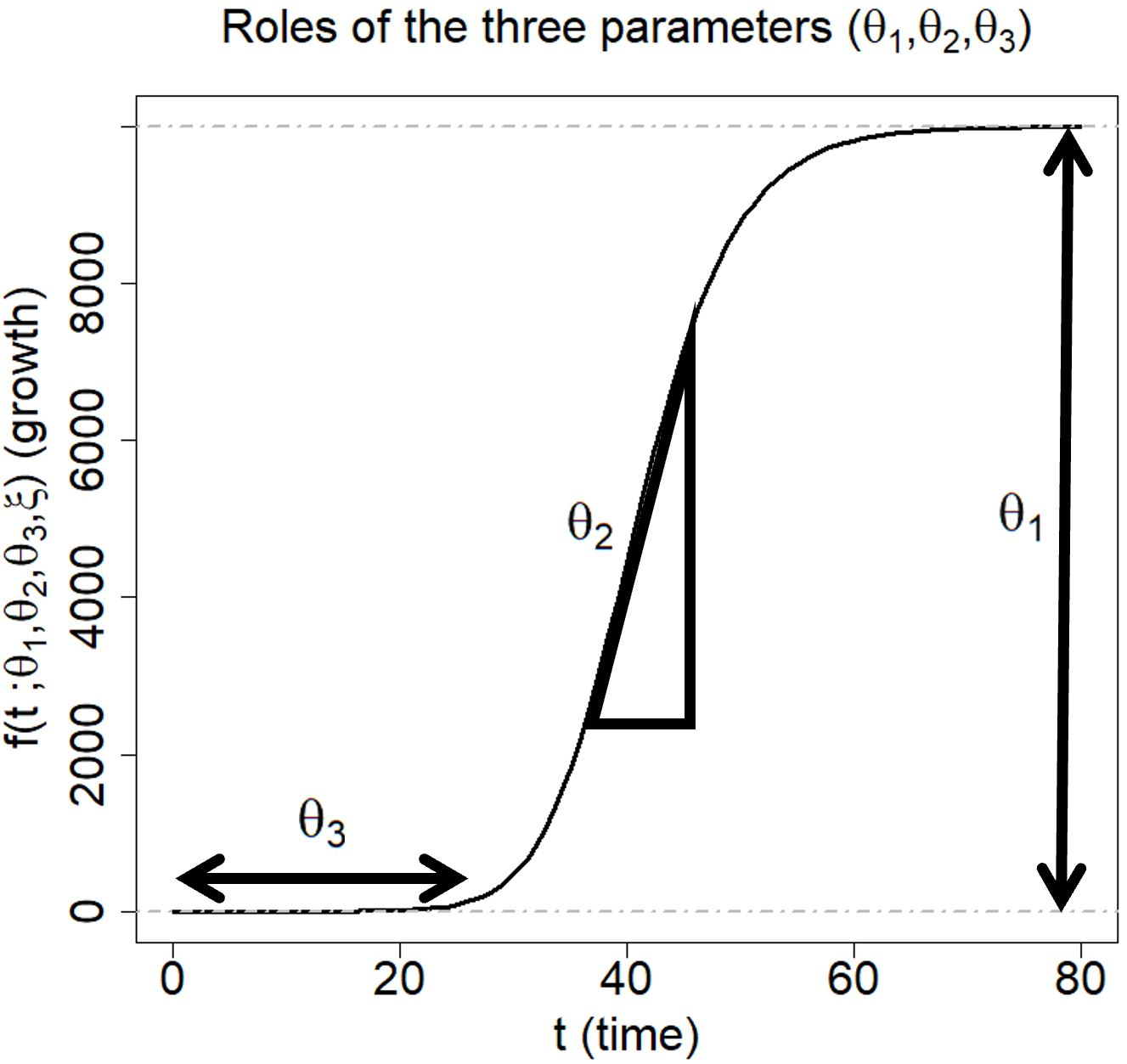 Role of the three parameters in the generalized logistic function